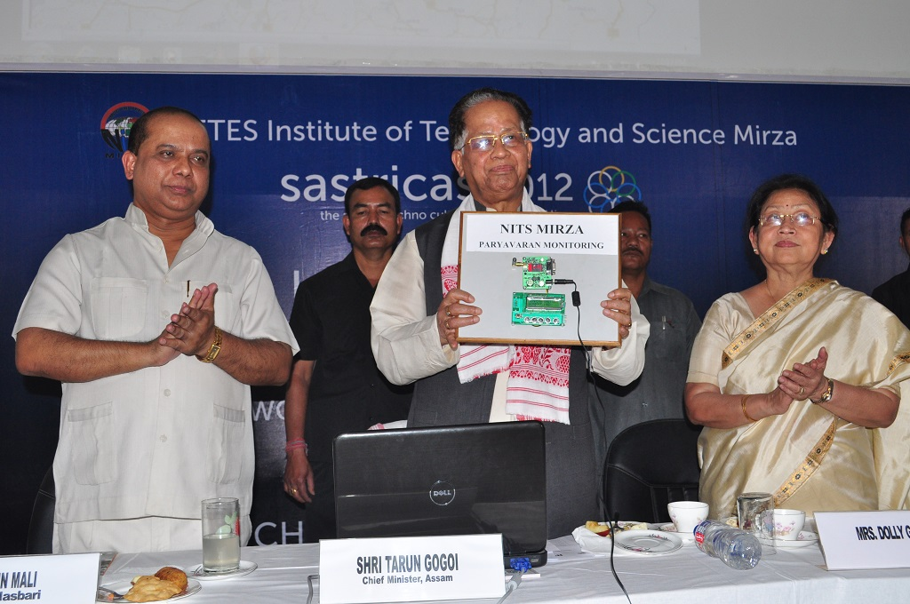 Assam CM Tarun Gogoi launching school weather station network at NITS Mirza during Sastricas 2012